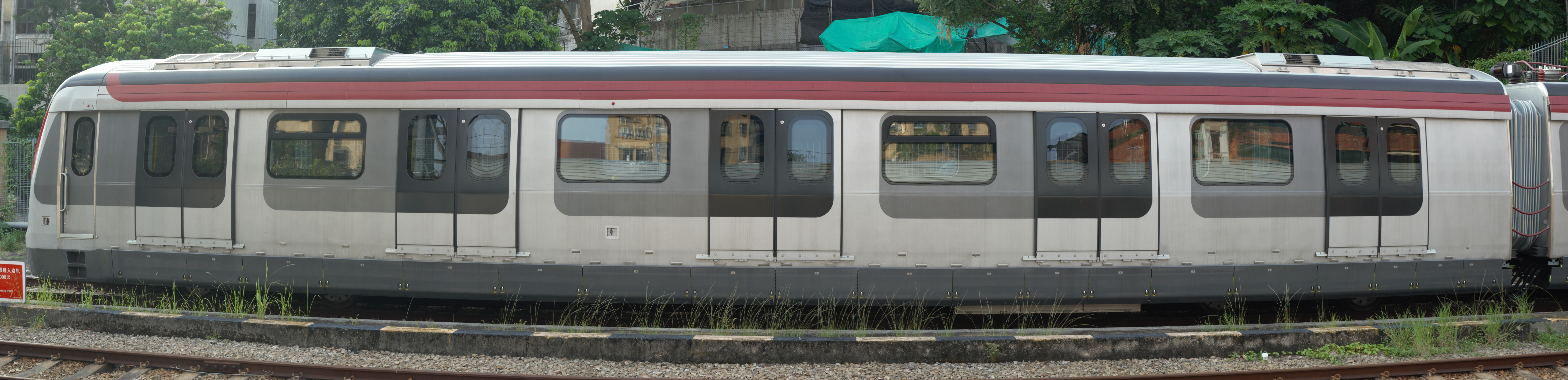 MTR East Rail Line Hyundai Rotem EMU - Compartment D004 - Side (with driver cab)